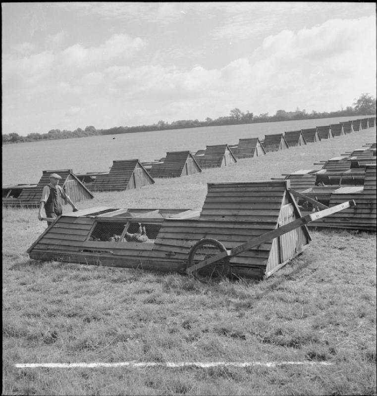 Modern Farming- Agriculture in Britain, 1943 Edward Raines, poultryman on a Hampshire farm, moves a poultry fold into line with the others in the field. Each of these chicken 'sheds' contains 25 birds. They are moved their length every day, providing fresh ground for the hens to feed on and also making sure that the chicken manure is spread across the whole field. According to the original caption: "the folds are portable and, with the aid of simple, wheeled moving-gear, are easily moved".